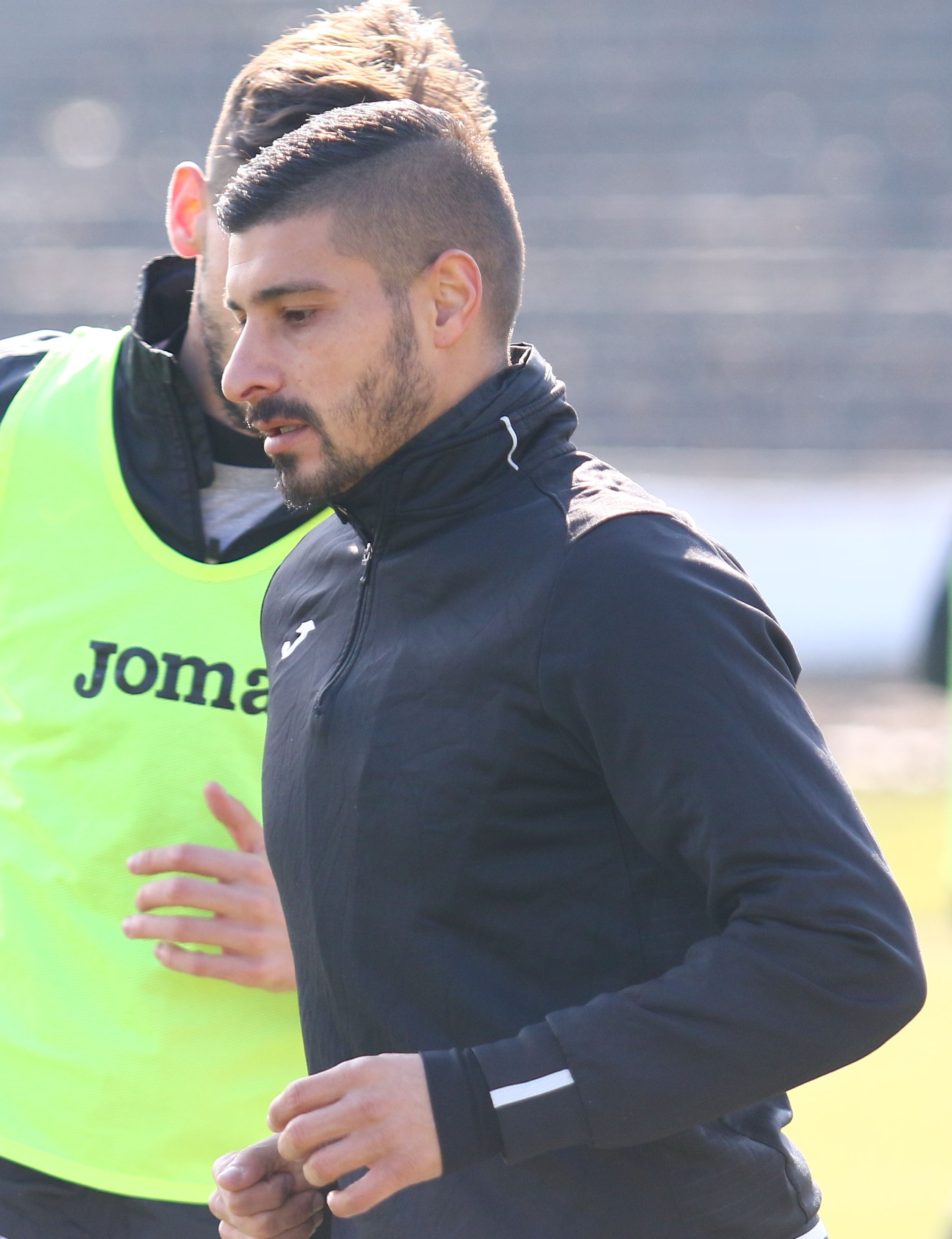 Slavcho Petrov Shokolarov (Bulgarian: Славчо Петров Шоколаров; born 20 August 1989) is a Bulgarian football player, currently playing as a midfielder for Slavia Sofia